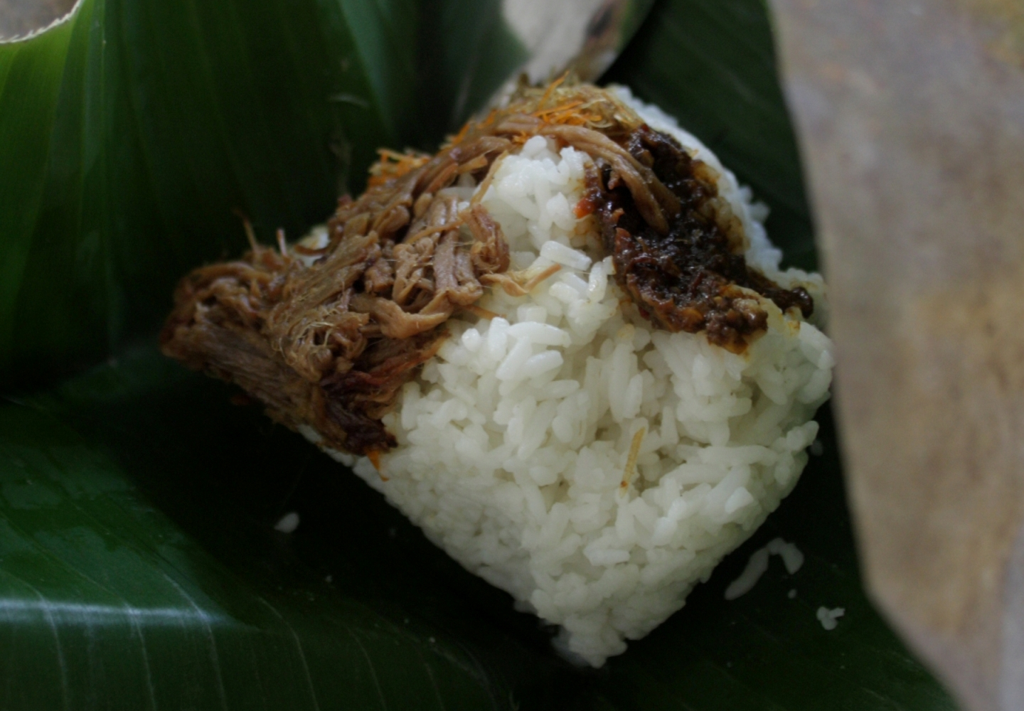 Krawu rice or Nasi Krawu in Bahasa Indonesia, a traditional rice from Gresik, East Java